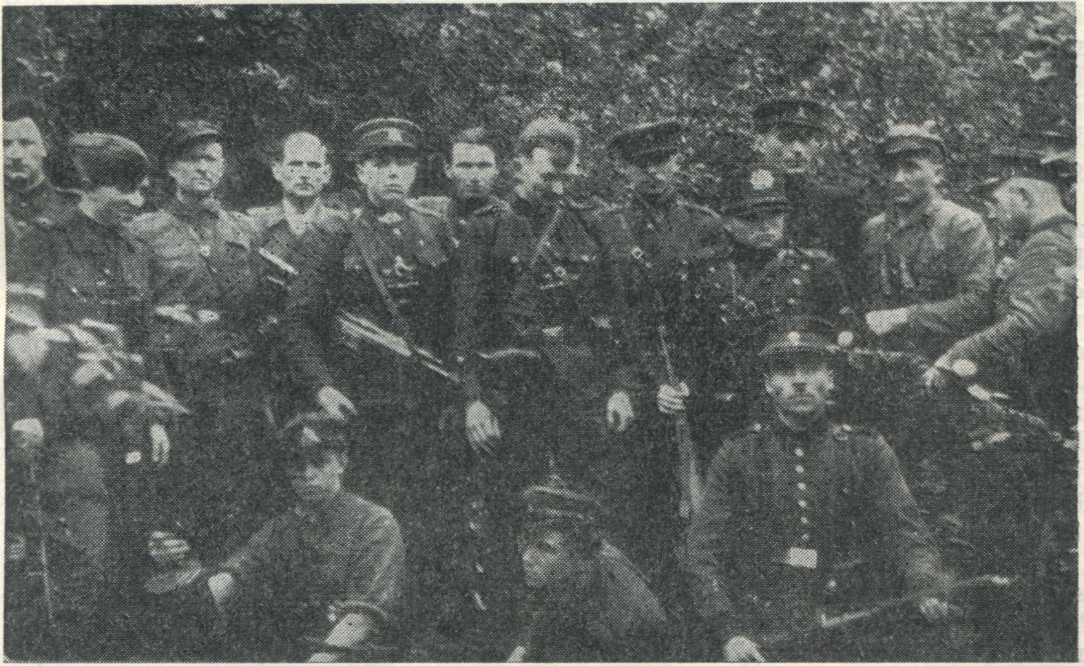 Members of the Lithuanian partisans (Žalgiris Territorial Defense Force) in the summer of 1946. First line from the left: A. Akambakas-Špi-cas, V. Kudirka-Trimitas, J. Armonaitis-Triupas. Second line: J. Paškevičius-Piršlys, V. Sadauskas-Velėna, J. Balsys-Aidas, C. Darnijonaitis-Saulius, V. Pauža-Šaulys, J. Kerutis-Šarūnas, V. Strimas-Šturmas, Z. Barniškis-Daktaras, V. Svotelis-Naras.